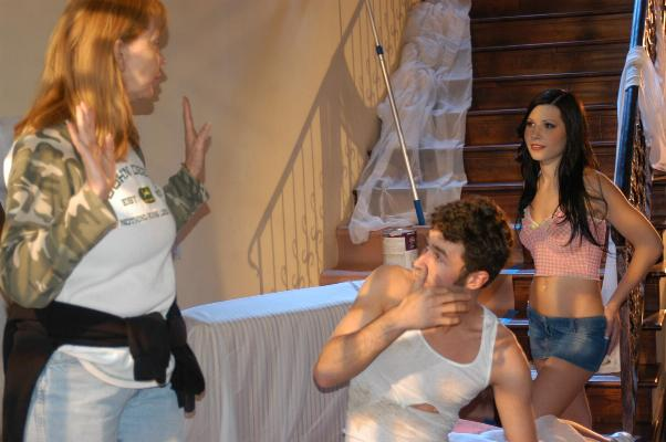 April 5 2007: XRCO Awards 2007. April 5 2007: at Boneyard Films shoot.